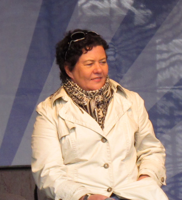 Maailma kylässä 2011 (World Village Festival) at Helsinki. In the picture Aila Paloniemi (Centre Party), Erkki Tuomioja (Social Democratic Party of Finland).